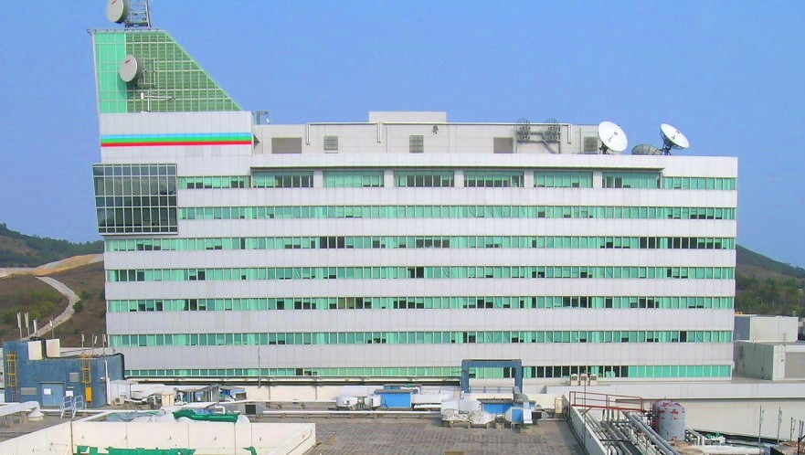 Main Block of TVB City, HK